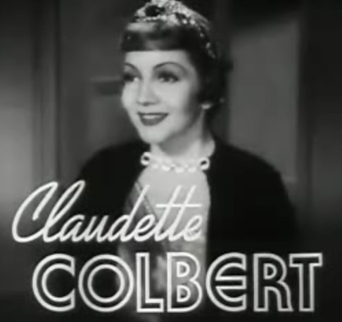 Cropped screenshot of Claudette Colbert from the trailer for the film Tovarich.